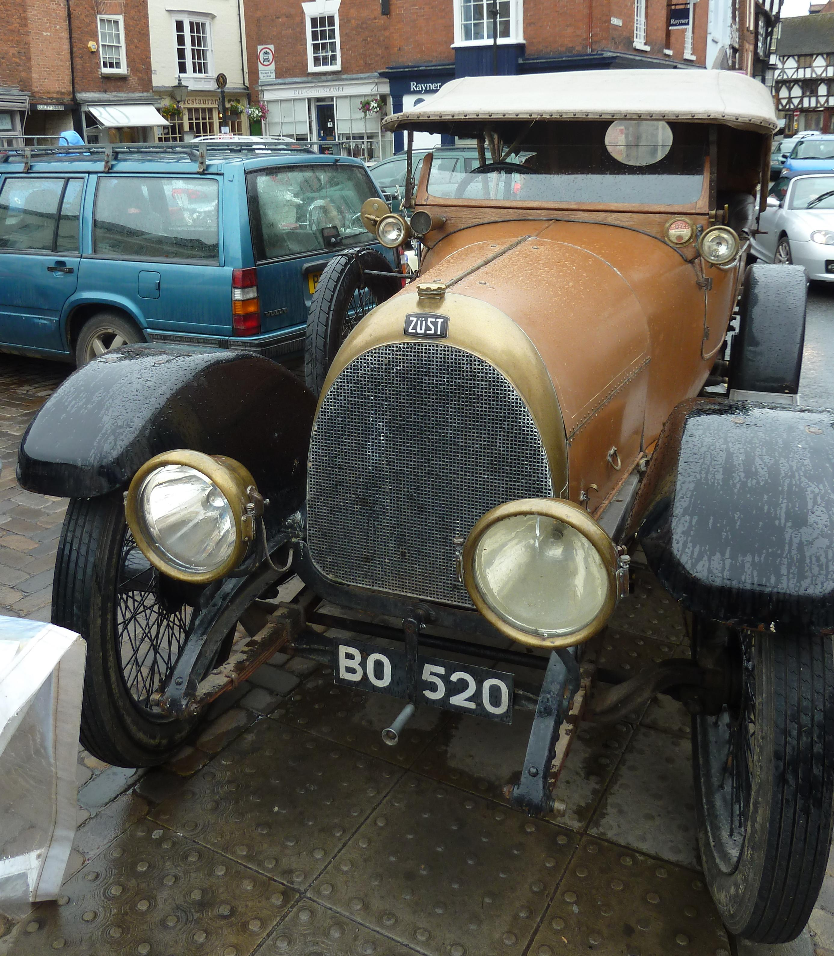 Züst 28hp car of 1912 Ludlow market